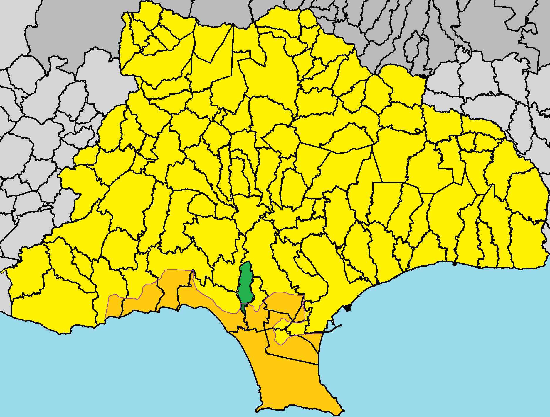 Erimi in Limassol District.